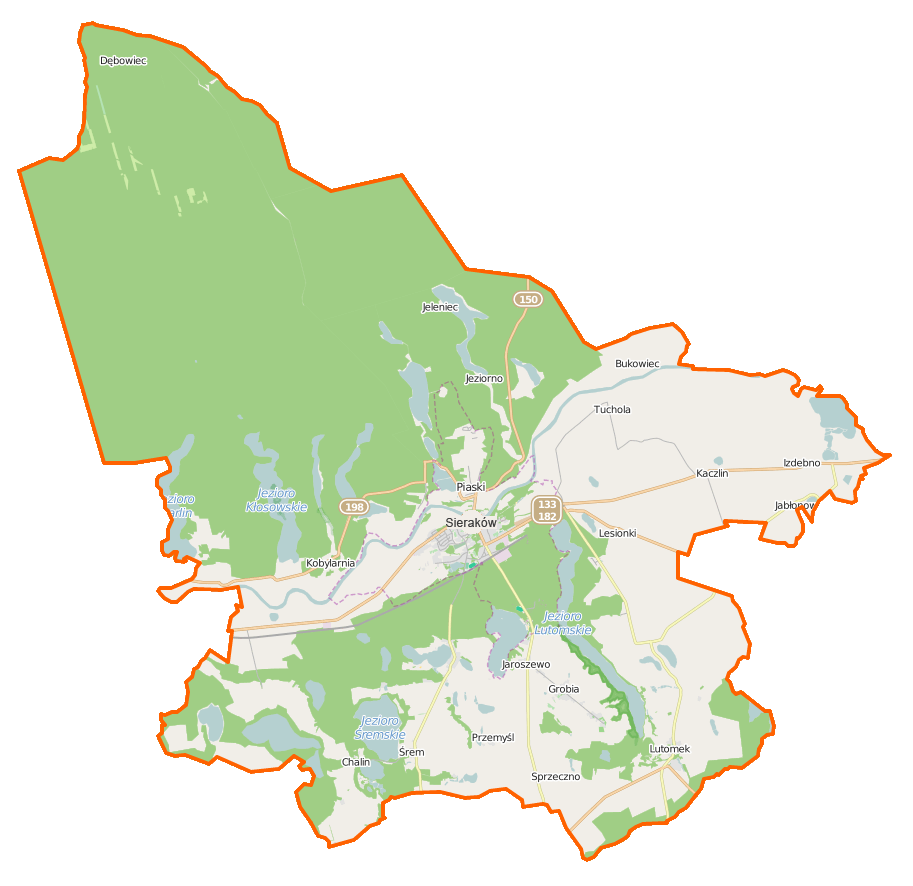 Map of Gmina Sieraków, Poland This map of Sieraków (gmina) was created from OpenStreetMap project data, collected by the community. This map may be incomplete, and may contain errors. Don't rely solely on it for navigation. Border coordinates52.758315.9192←↕→16.232052.5782